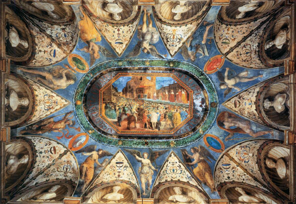 Ceiling decoration: Charles V Arrives at San Petronio in Bologna for the Imperial Coronation in 1530